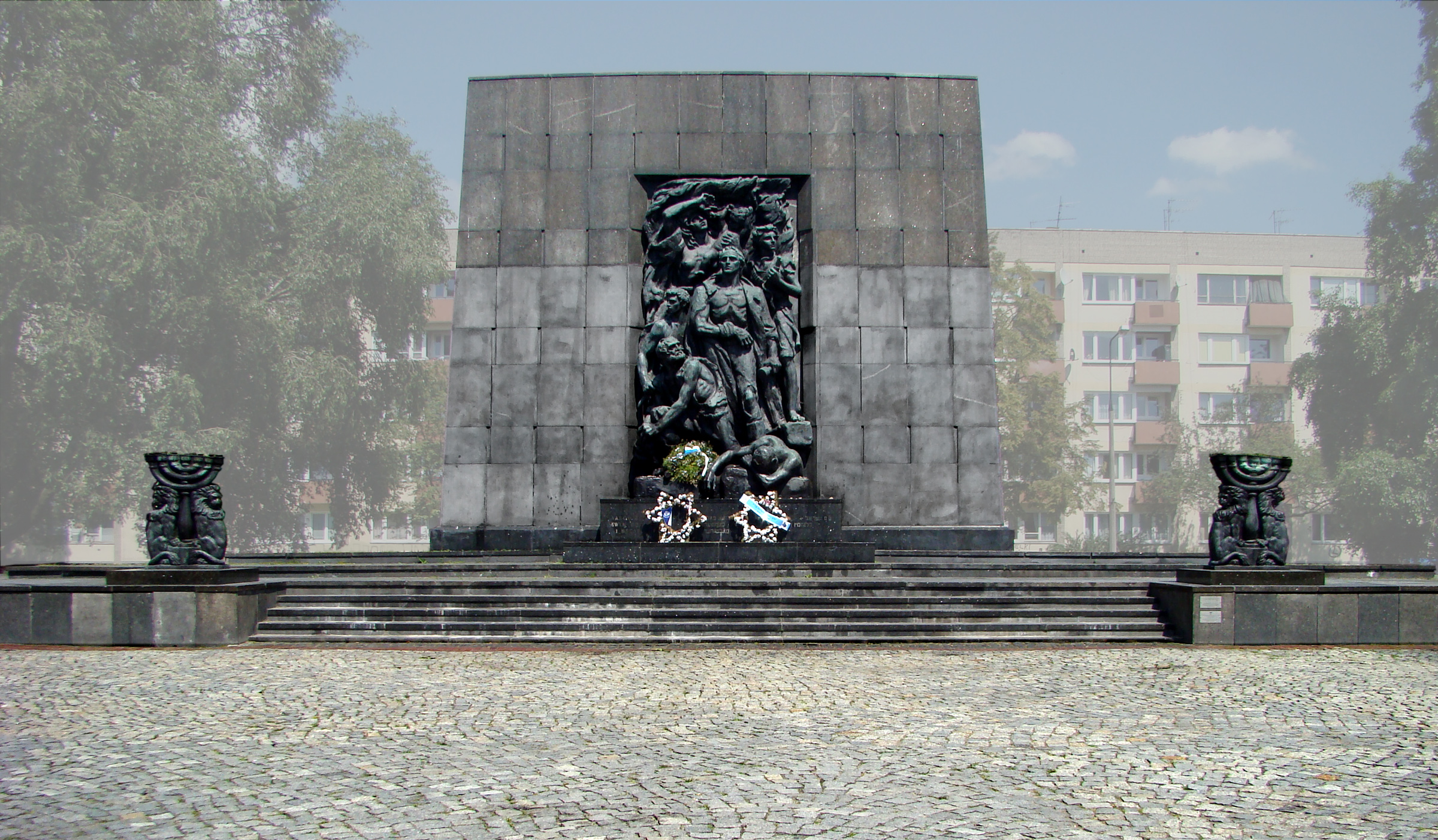 Monument of the Warsaw Ghetto Uprising